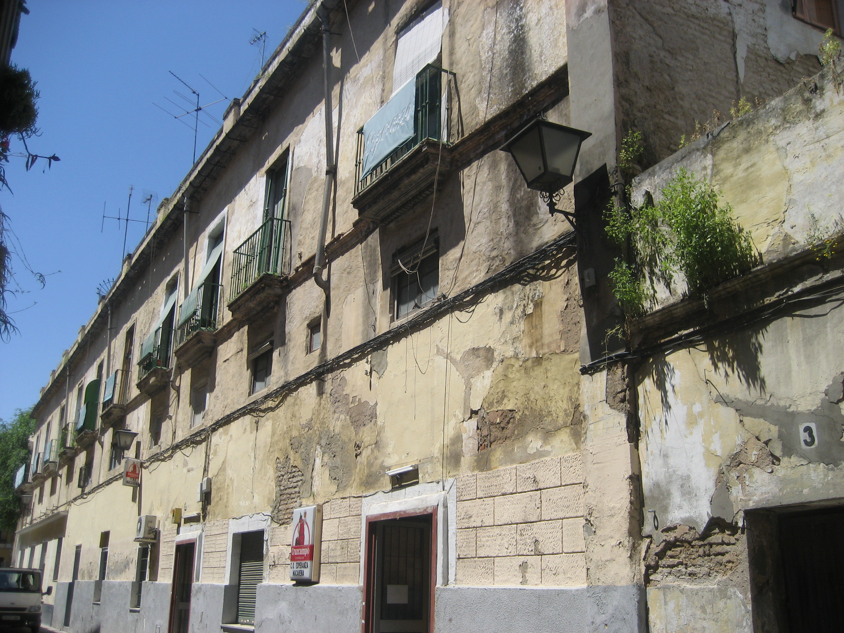 Lateral facade of the dilapidated Palacio de Pumarejo, in the Plaza by the same name.